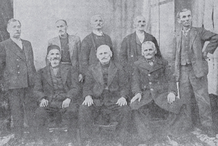 Here are some of the Ilindenci/ Macedonian revolutionaries in the city of Ohrid in 1941 where this photo was taken. These men where part of the revolutionary organisation IMRO which fought for the independance of Macedonia and it's people. Some of these men include Lambe and Eftim who were brothers from a village near Ohrid. Others here come from this same village and come from around Ohrid.